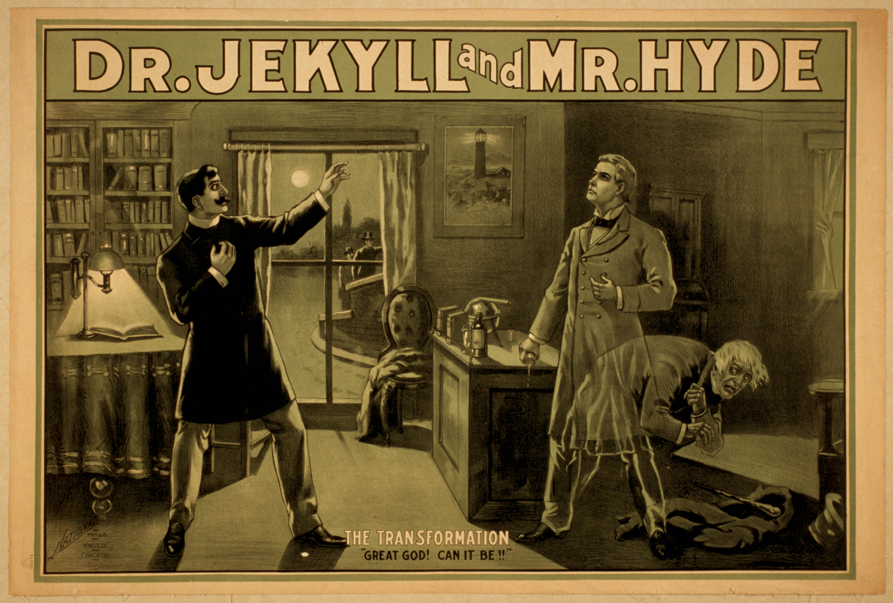 Poster for a theatrical adaptation of Strange Case of Dr Jekyll and Mr Hyde. Converted losslessly from .tif to .png by uploader.